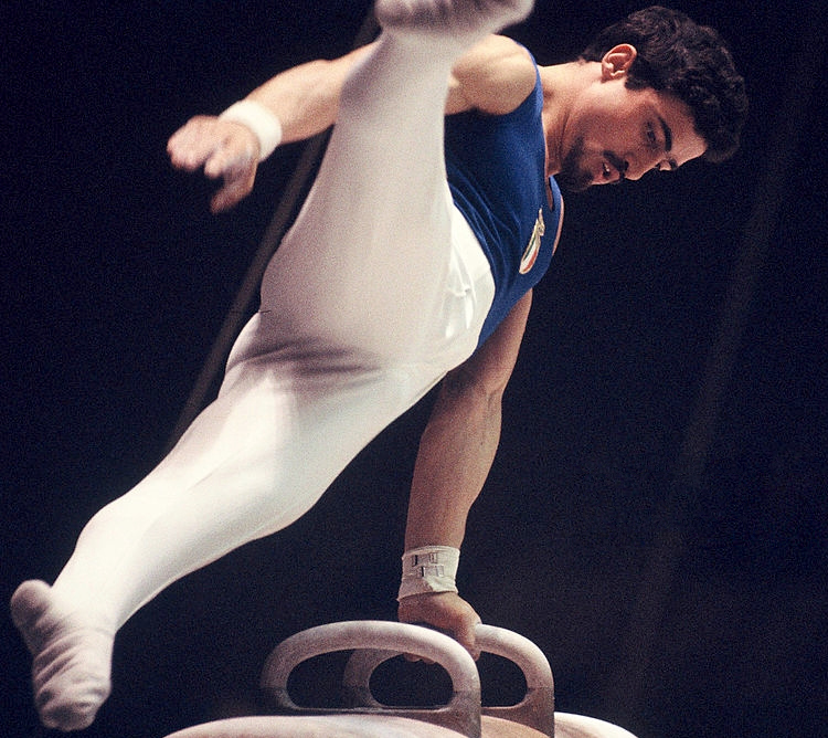 Giovanni Carminucci at the 1964 Olympics